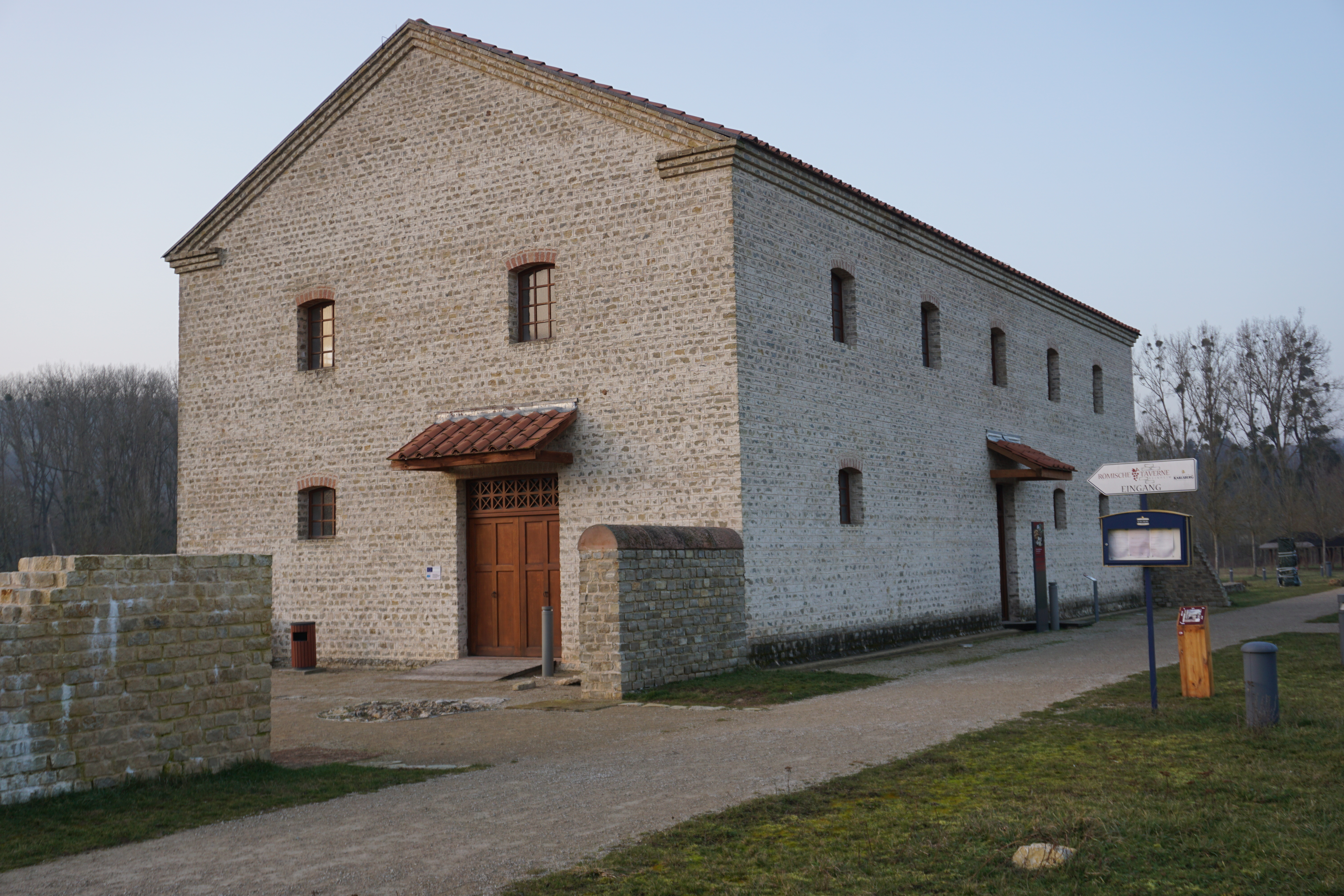 Reconstructed outbuilding 6 of the Roman villa of Reinheim.